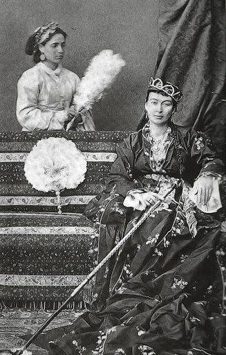 Inji Hanem Effendi (Arabic: انجى هانم افندی)(Turkish: İncı Hanımefendi)(died 5 September 1890) was the first wife of Said Pasha, Wāli of Egypt and Sudan from 1854 until 1863. She was known among the Europeans as Princess Said.